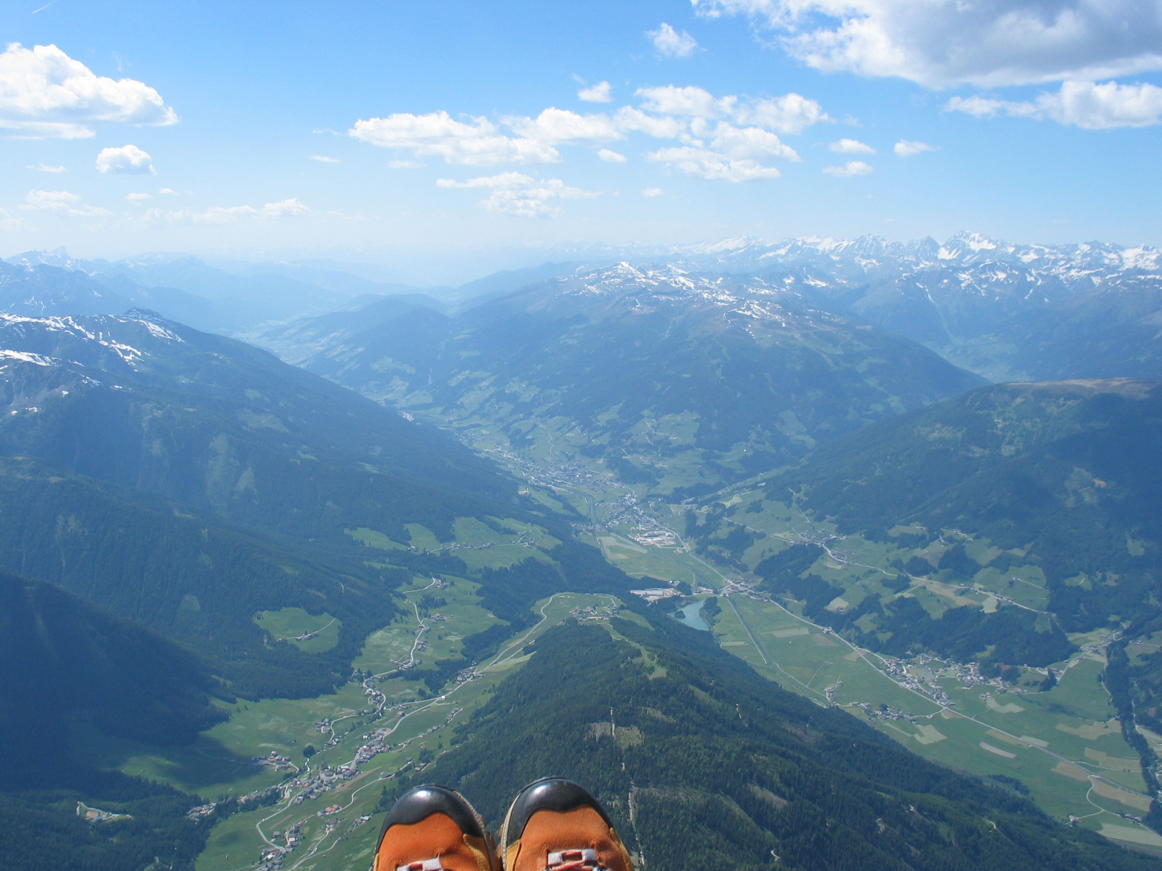 View from Kartitsch Oberberg to Pustervalley, Osttirol, Austria. Photo taken from paraglider.